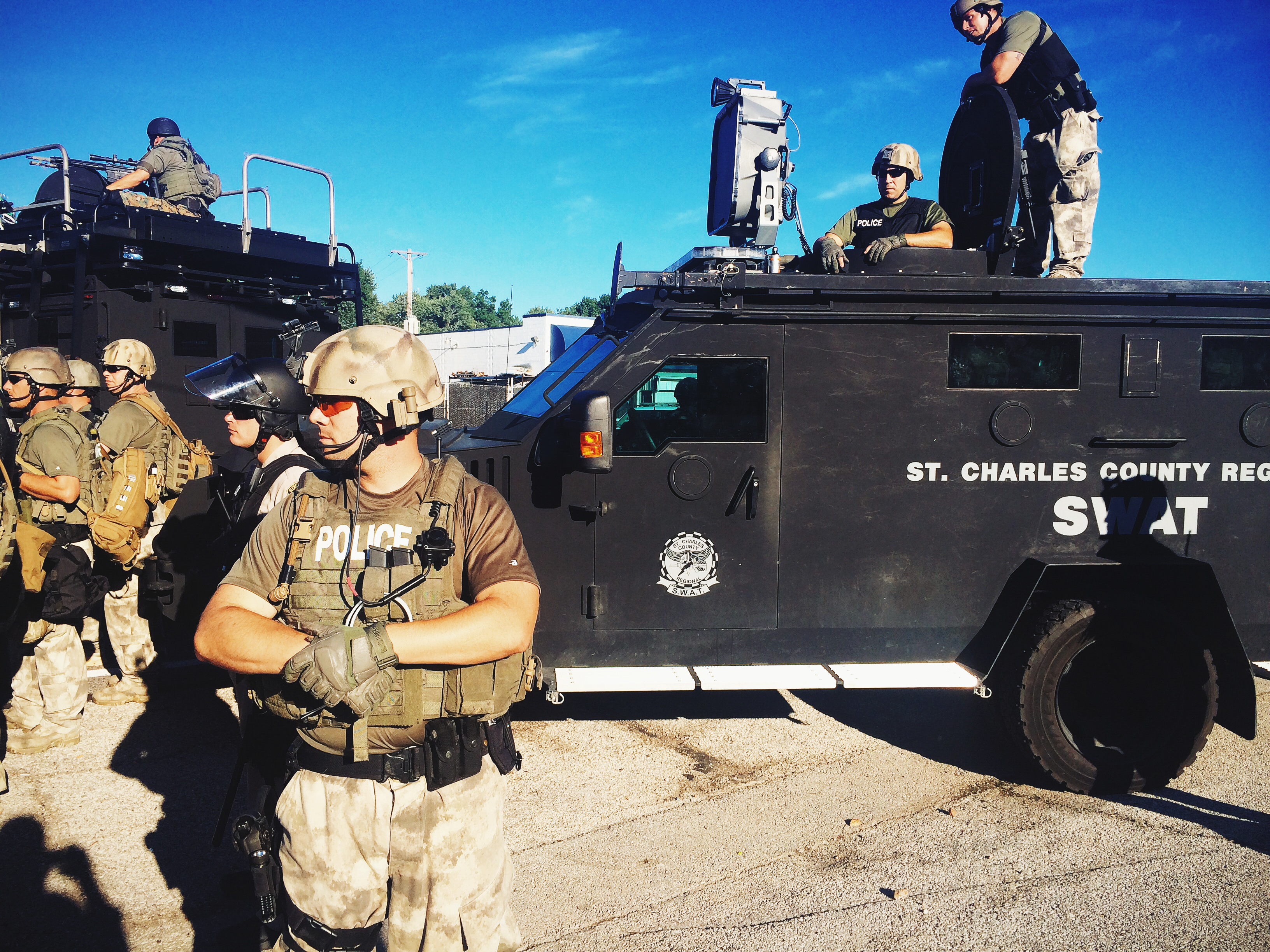 SWAT team in camouflage on Ferguson streets.